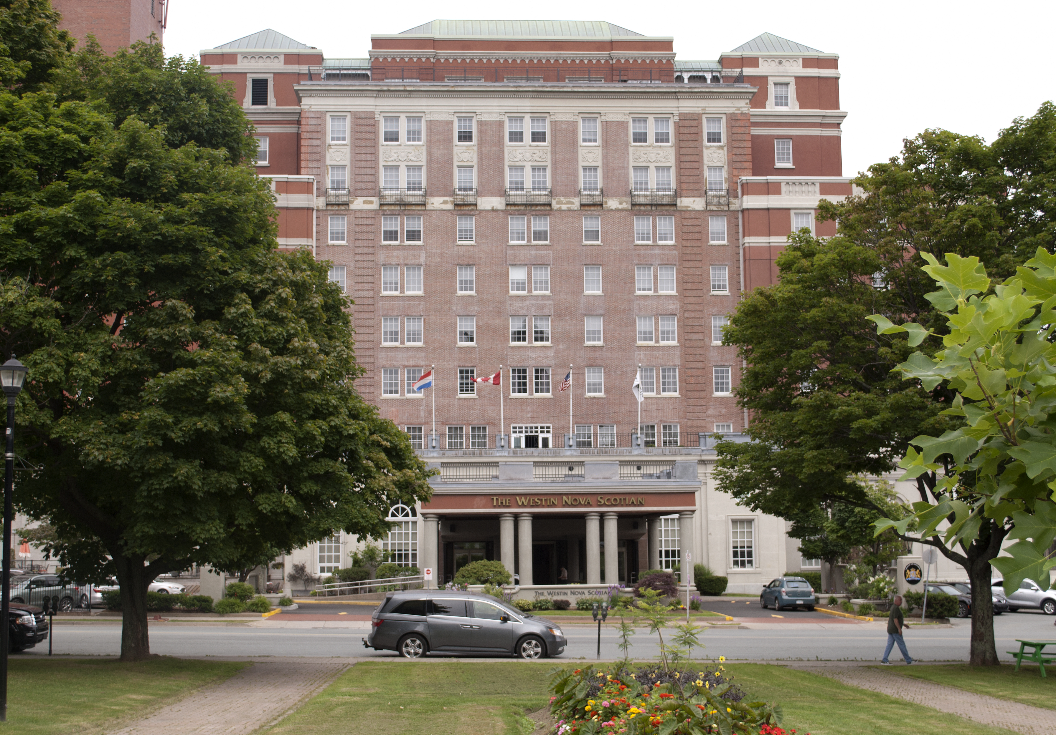 Front entrance of Westin Hotel.